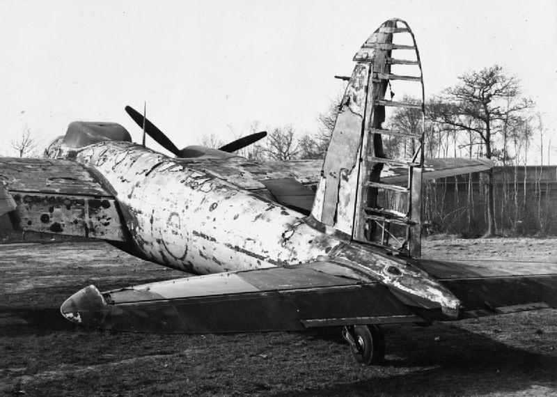 Royal Air Force- Air Defence of Great Britain (adgb), 1944. Fire-damaged De Havilland Mosquito NF Mark XVII, 'O', of No. 85 Squadron RAF, back at its base at West Malling, Kent, following the destruction of an enemy bomber on the night of 24/25 March 1944. Flying Officer E R Hedgecoe (pilot), and Flight Lieutenant N L Bamford (radar operator), flying 'O for Orange' intercepted the Junkers Ju 188 off Hastings, closing to 100 yards to deliver a burst of cannon fire upon which the enemy aircraft suddenly exploded, enveloping the Mosquito in burning oil and debris. The fabric covering of the aircraft caught fire and it was enveloped in flames. Hedgecoe ordered Bamford to bale out, but had second thoughts when the fire went out and he found the Mosquito to be stable in flight, despite the loss of rudder control due to the fabric being burned off. After wiping a clear patch in the soot-blackened cockpit canopy, Hedgecoe flew back to a safe landing at West Malling. Hedgecoe and Bamford were an experienced night-fighting crew, Hedgecoe having shot down eight enemy aircraft and Bamford taking part in the destruction of ten, before both were killed in a flying accident on 1 January 1945.